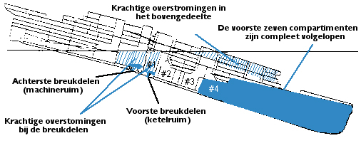 Breaking of the Titanic